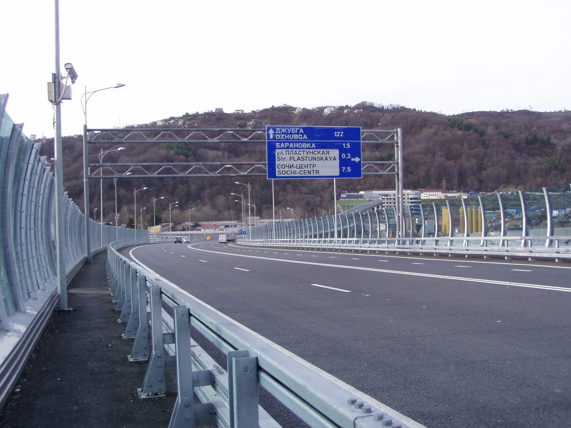 Part of Beltway in Sochi, Russia